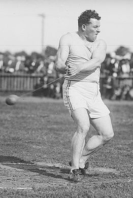 John Jesus Flanagan, Olympic Champion hammer thrower and member of the Irish American Athletic Club at the Brooklyn YMCA games, held at Celtic Park, Queens, June 9, 1909.